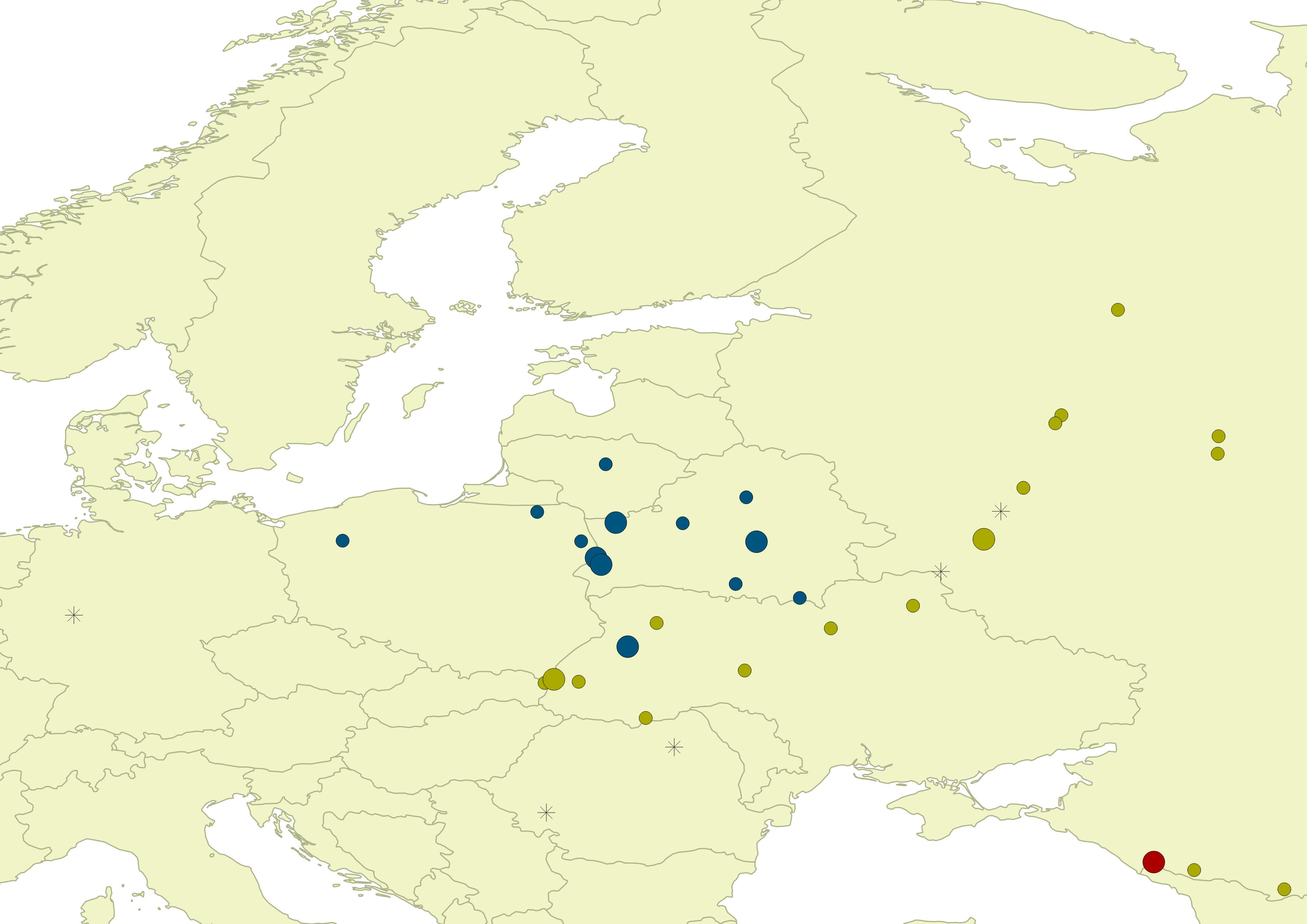 The dataset used (TM_WORLD_BORDERS-0.2) is available under a Creative Commons Attribution-Share Alike License from and processed in QGIS 2.2.0. Own work using: distribution of free-living European bison based on data from the European Bison Conservation Center (2010) The map excludes the populations in the Altai Mountains and Latvia. The latter due to uncertainty about its status (Lowland or Lowland-Caucasian? Considered native or not?). For additional information on the distribution, information from Google Maps has been used . Dark-blue = Lowland. Greenish = Lowland-Caucasian. Dark-red = Highland. Large circles show populations that exceed 100 individuals (considered safe) and small circles show populations that are below the 100 individuals threshold. Stars are populations re-introduced after 2010. Two areas in Romania and one area in Germany.